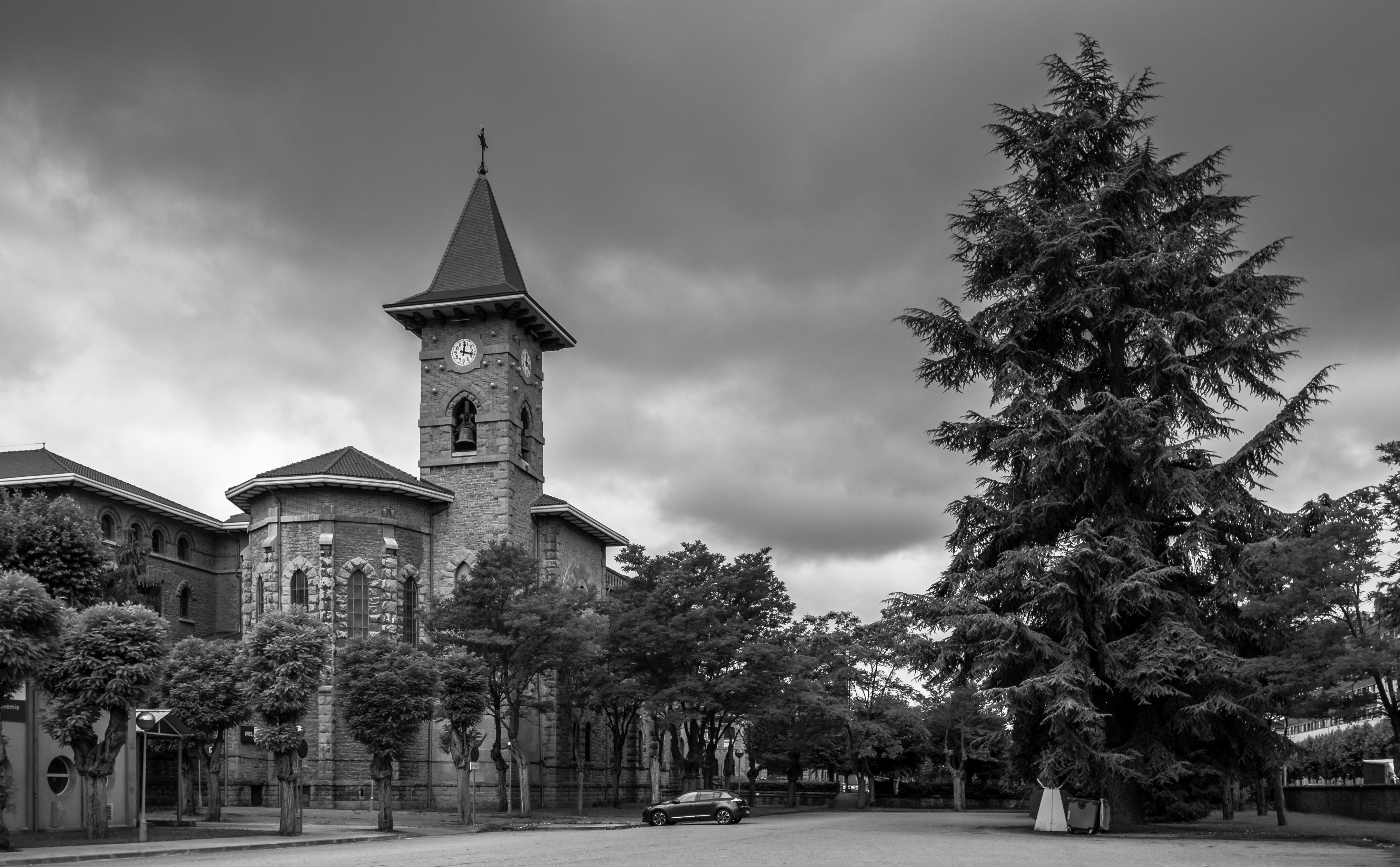 Diosesan Seminary. Vitoria-Gasteiz, Basque Country, Spain